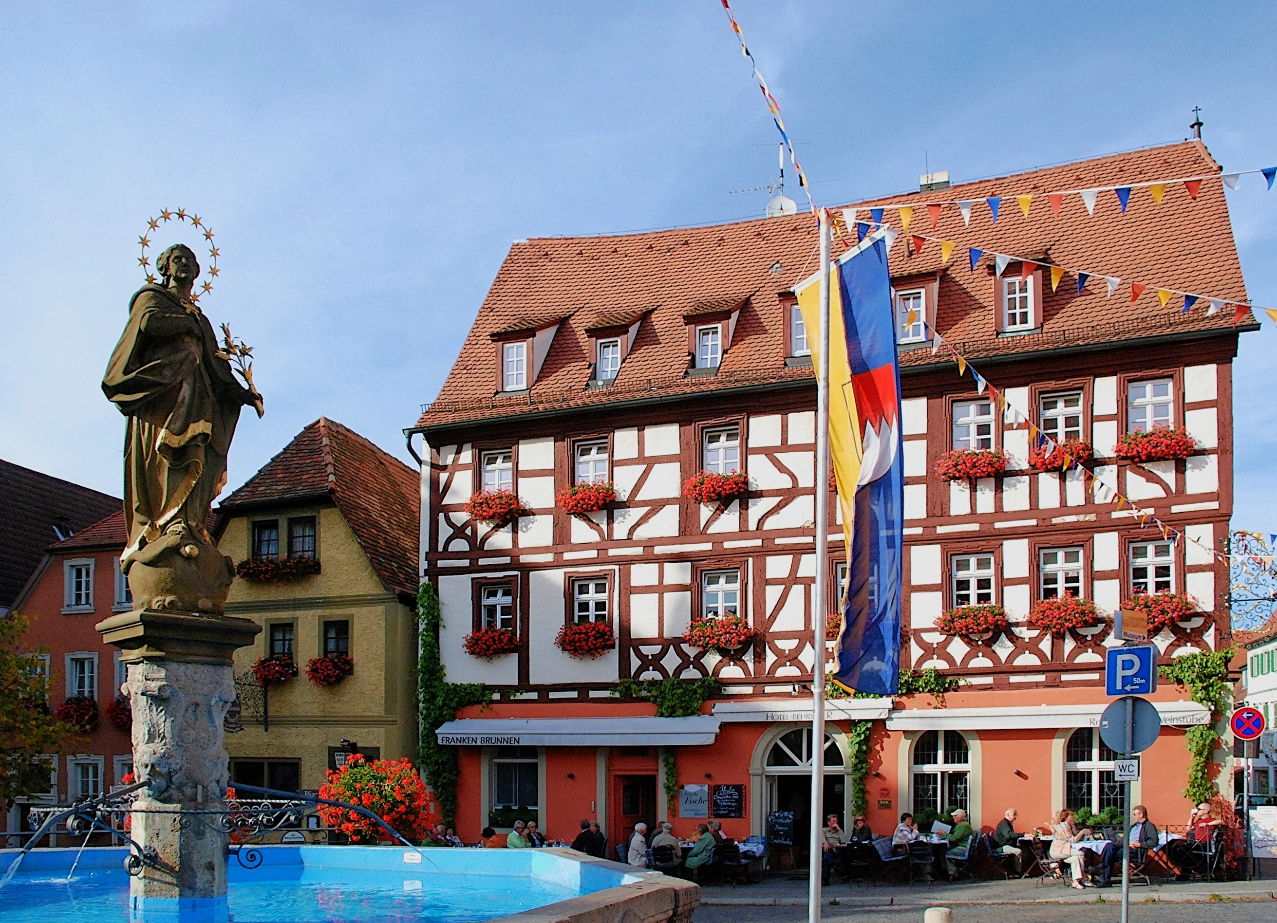 Marketplace of Volkach in Lower Franconia.